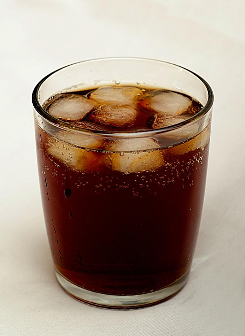 Cola in a glass Nutella tumbler, served with ice cubes.